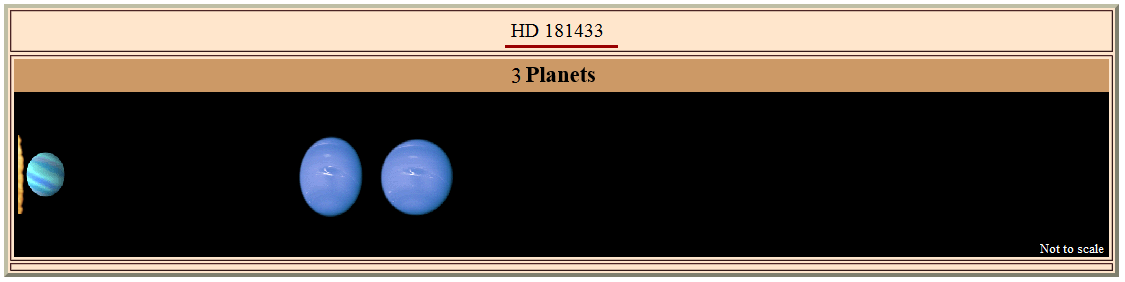 Diagram of the (probable) HD 181433 Star System